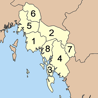 Map of Krabi, Thailand, showing the districts. Mueang Krabi Khao Phanom Ko Lanta Khlong Thom Ao Luek Plai Phraya Lam Thap Nuea Khlong